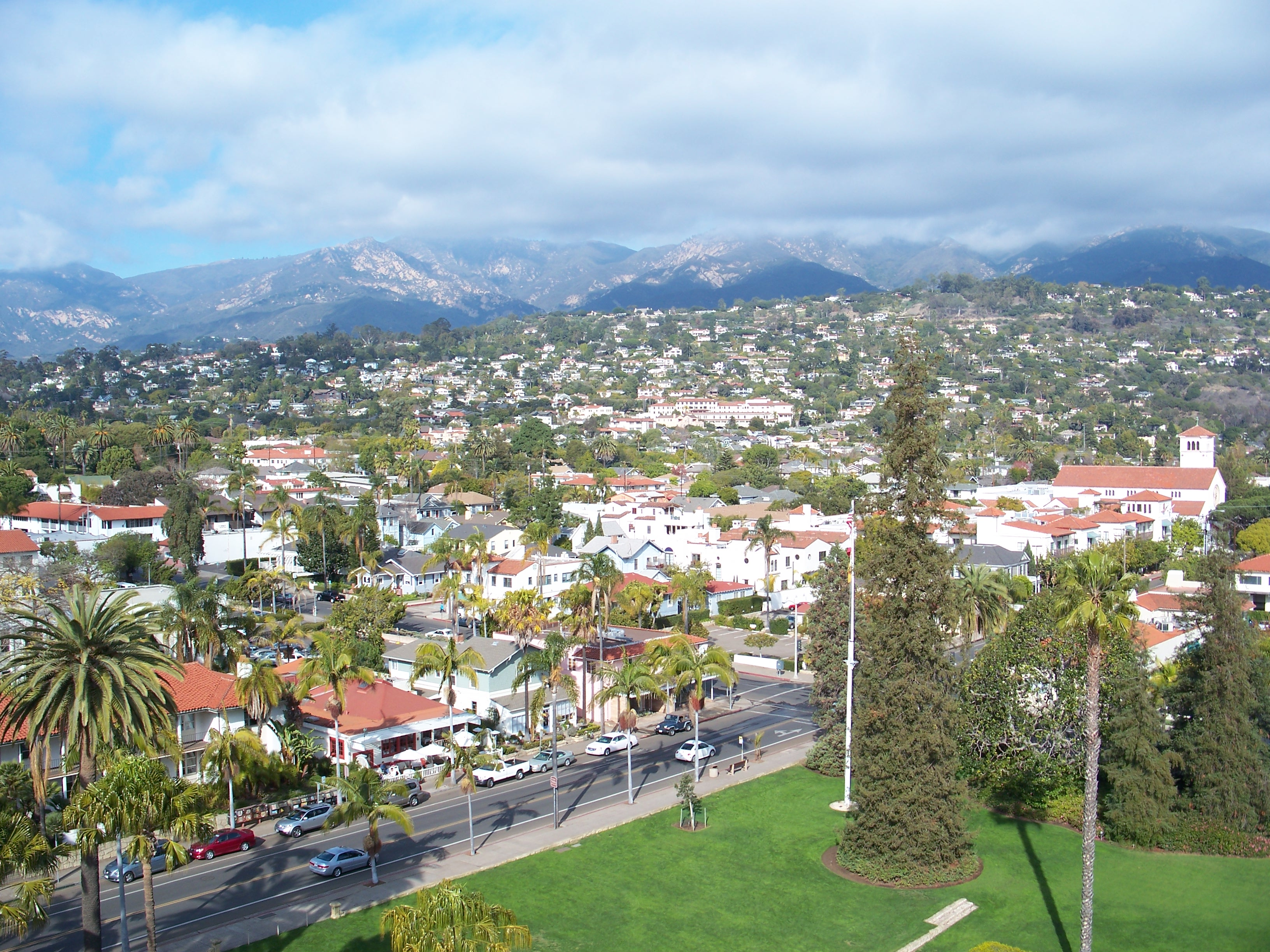 View from Santa Barbara County Courthouse tower. 1120 Anacapa Street. Santa Barbara, California, USA